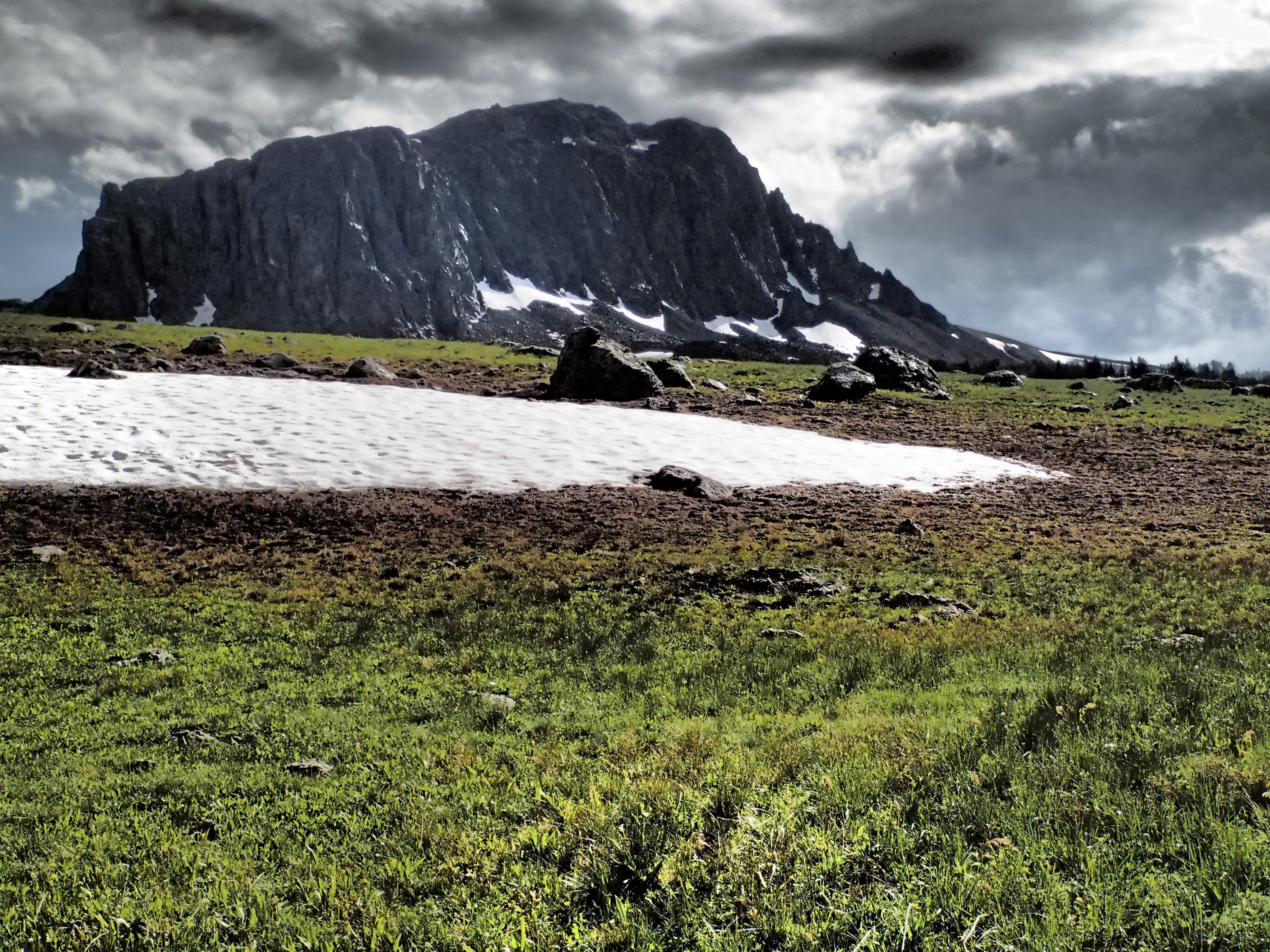 Black Butte, Gravelly Range Montana July 2013